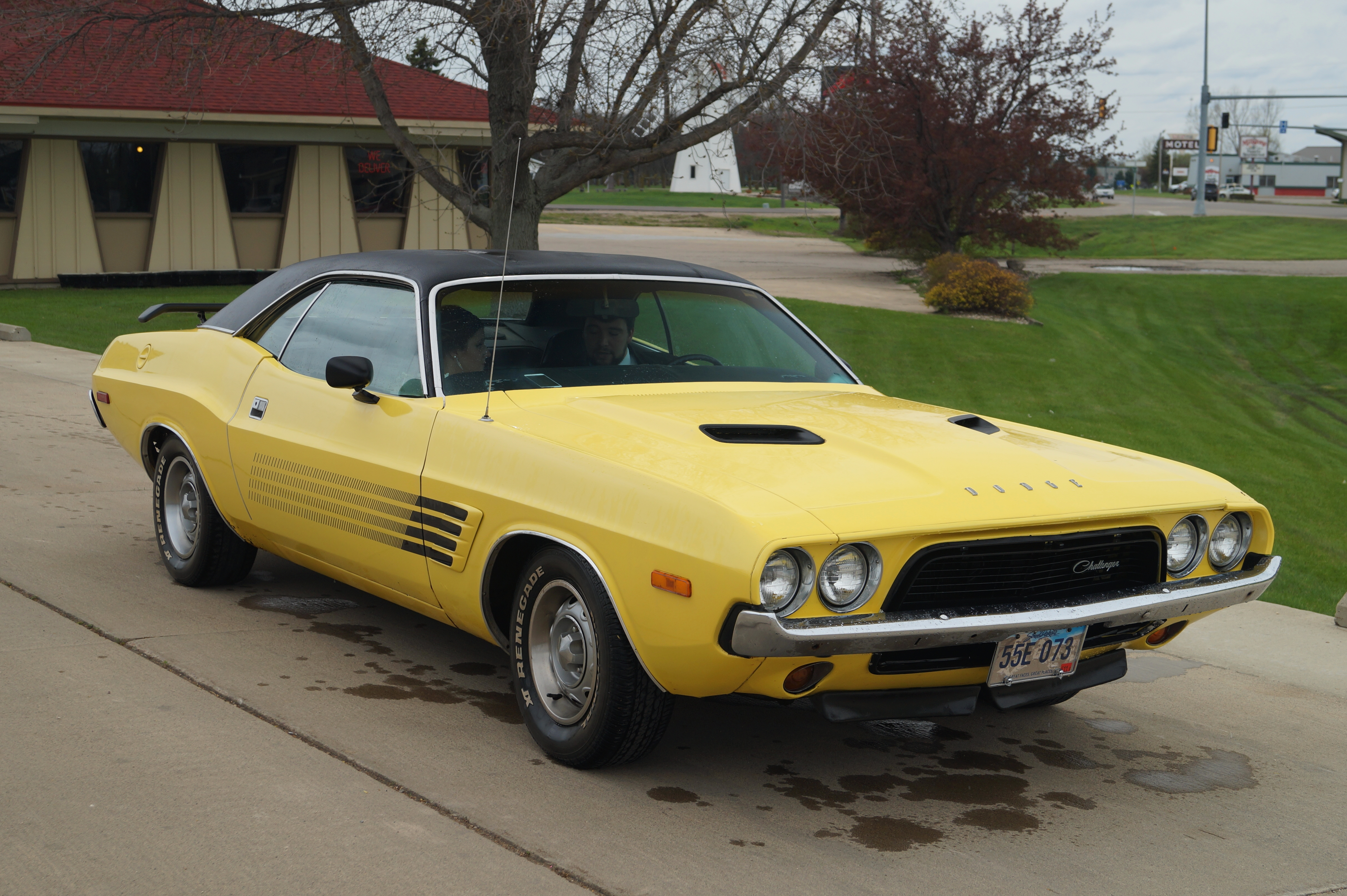 Click here for more car pictures at my Flickr site.